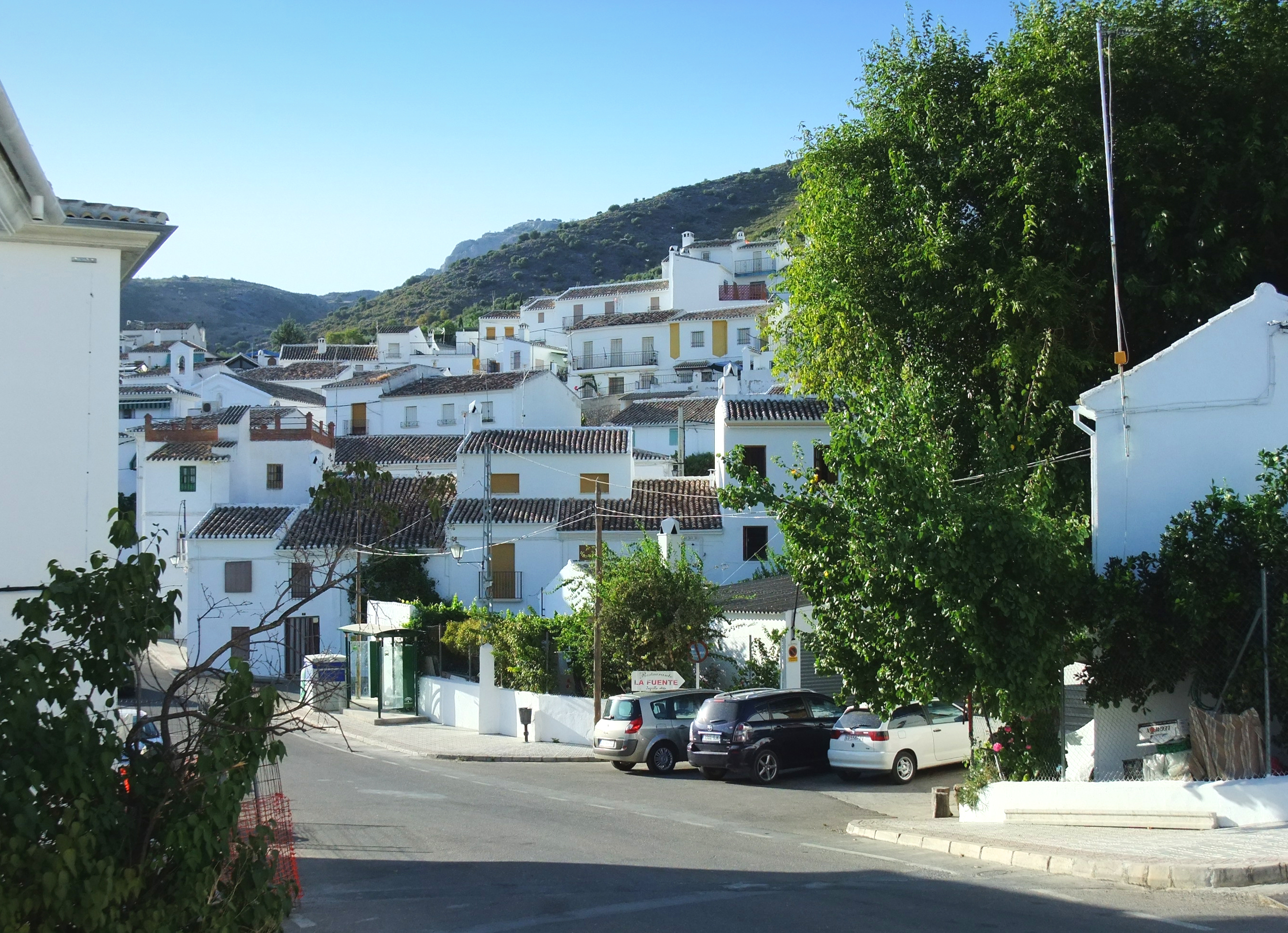 Street in Zagrilla, Province Córdoba in Andalusia, Spain